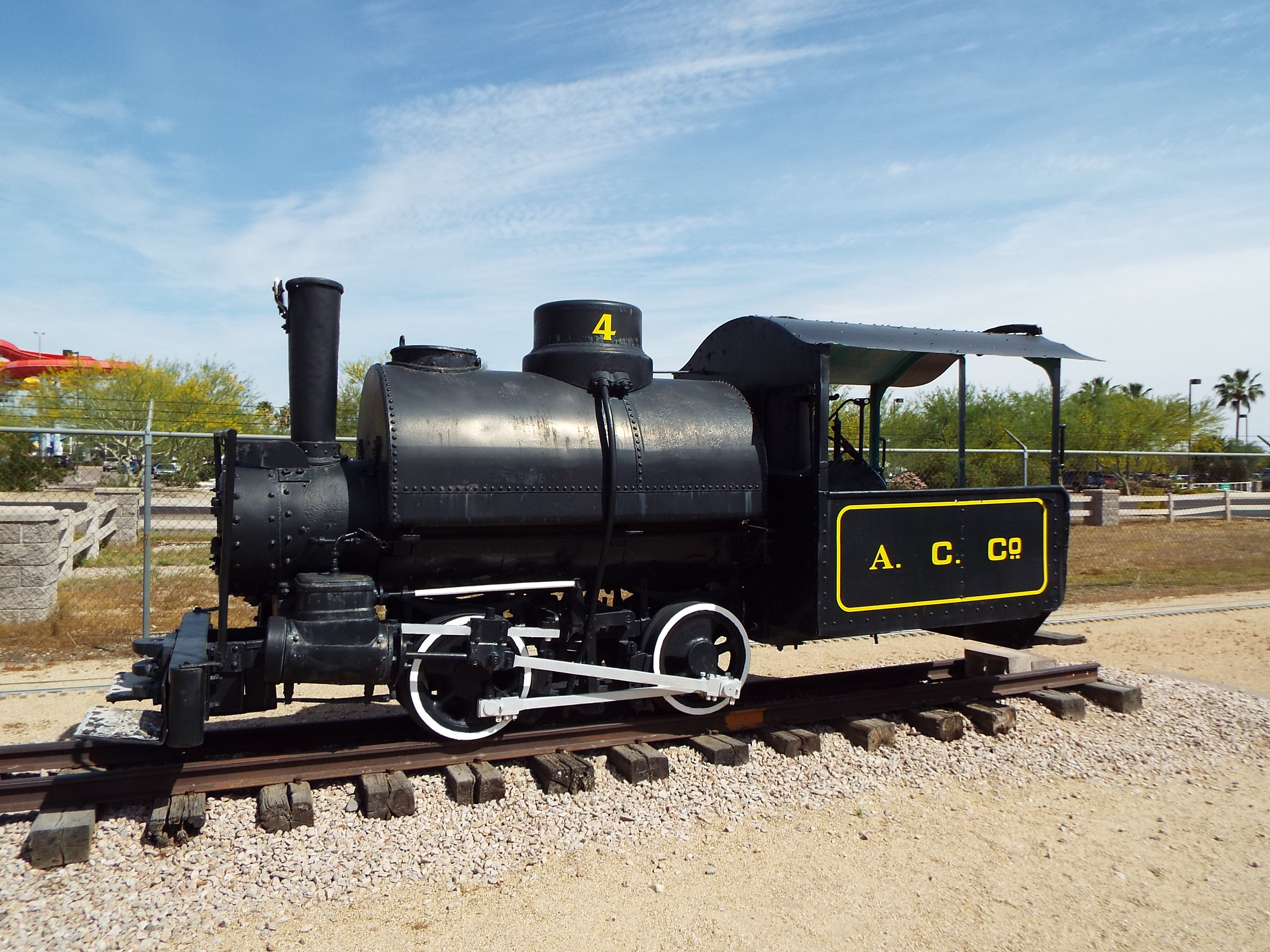 This Porter 0-4-0 is an 18" gauge locomotive that was once used as a copper mining locomotive. Built in Pittsburgh, Pennsylvania in 1887, this locomotive was operated by the Detroit Copper Company at their Morenci, Arizona mine. The locomotive is located at 23280 N 43rd Ave, Glendale, AZ